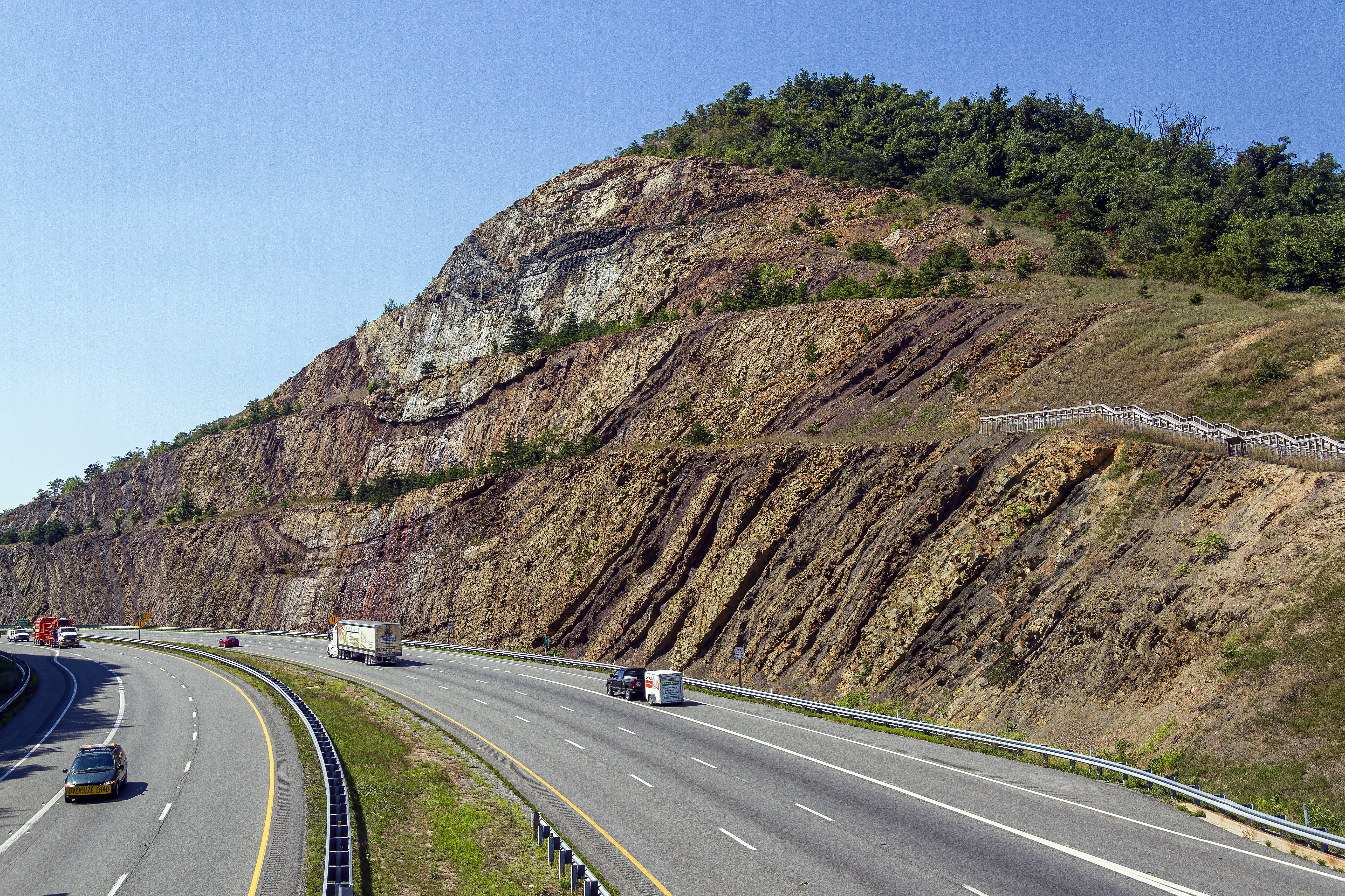 The Sideling Hill syncline as exposed in the Interstate 68 roadcut to the west of Hancock, Maryland, USA, from the Victor Cushwa Memorial Bridge